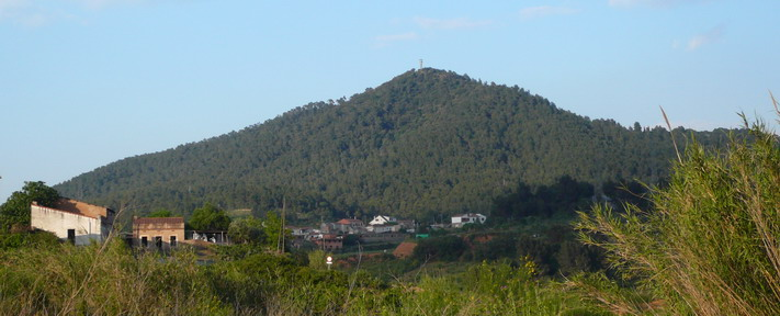 Puig Madrona (Serra de Collserola, El Papiol, Baix Llobregat, Catalonia).